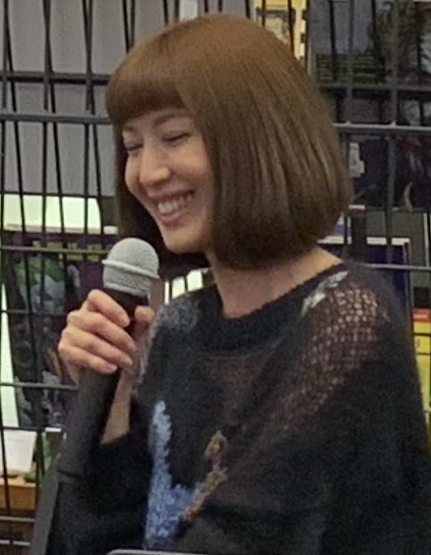 Jeanette Aw, an Singaporean actress, at the DVD Premiere of Ramen Teh.